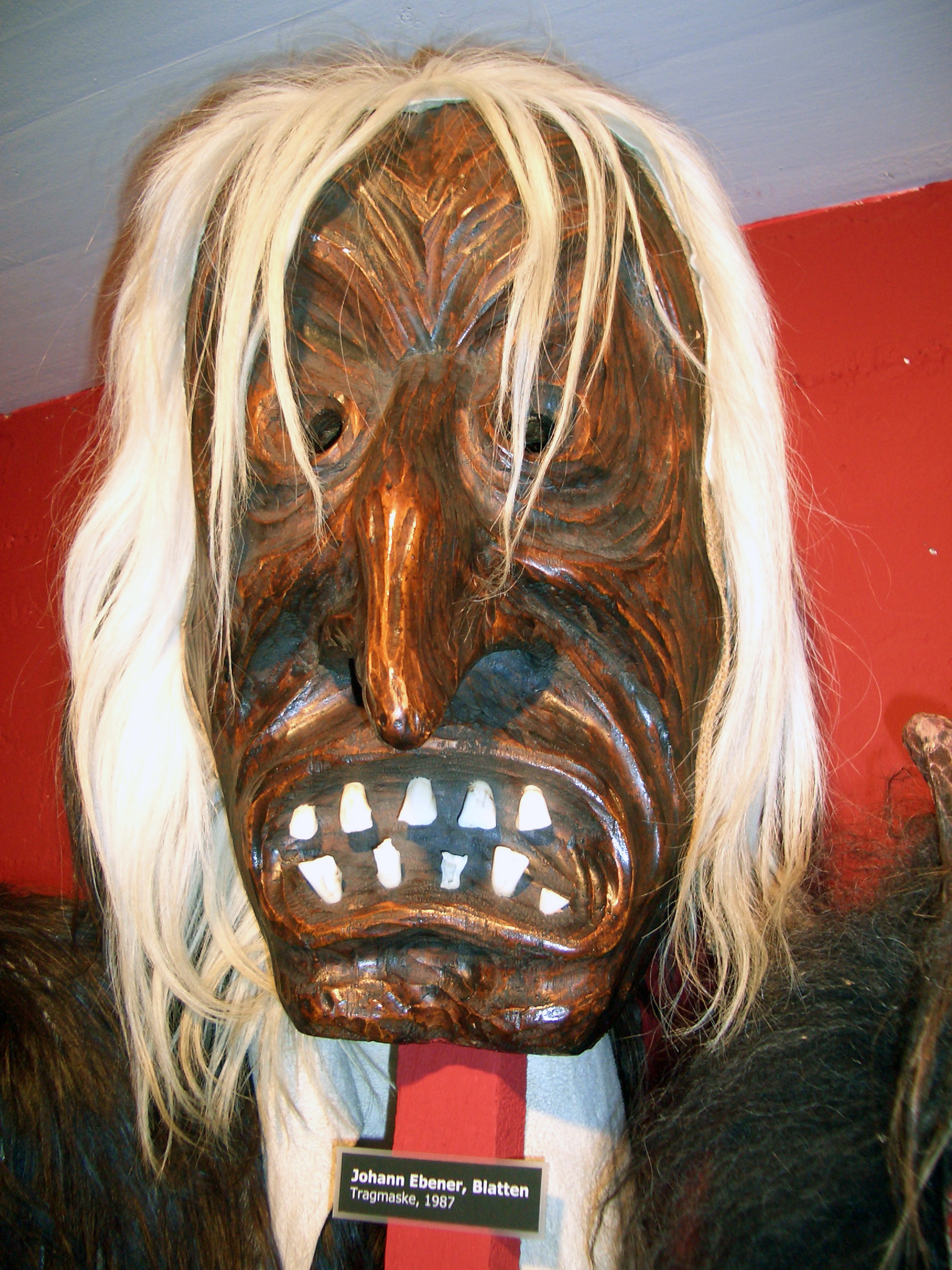 Tschäggättä, costumed figures wearing wooden masks during Carnival in Lötschental/Switzerland. Displayed at Lötschentaler Museum - Kippel.